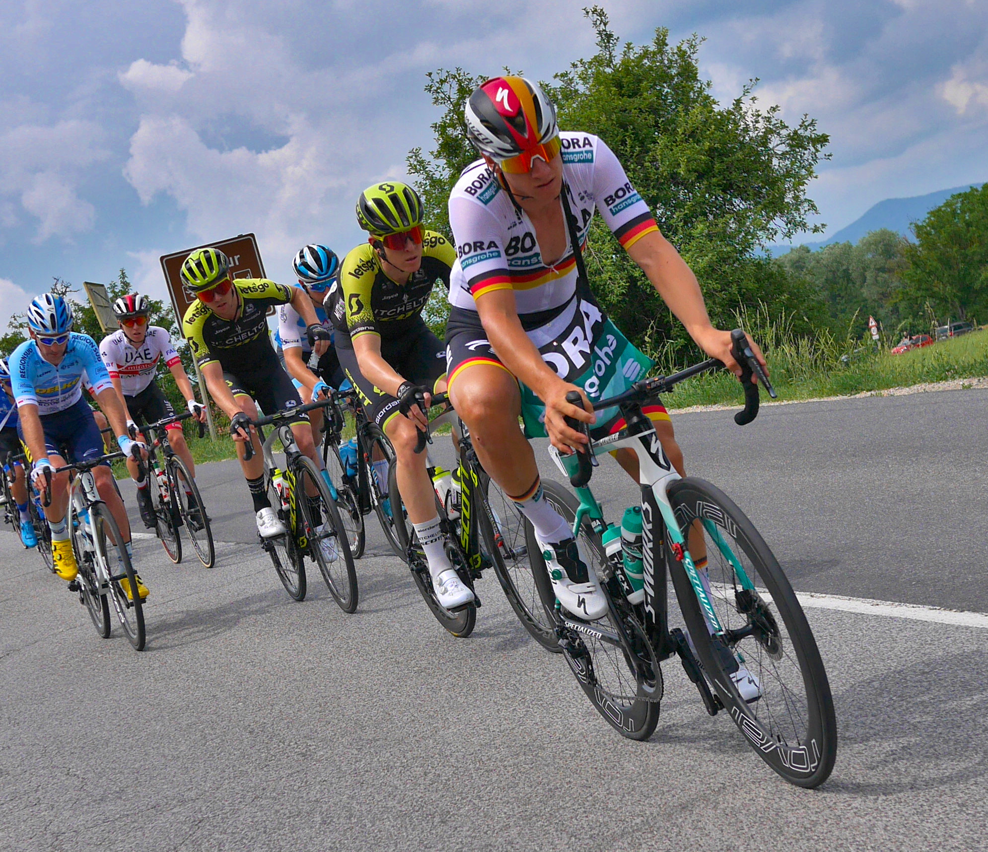 2019 Tour of Slovenia Stage 1 (Pascal Ackermann, Bora-hansgrohe) winner of Stage 1